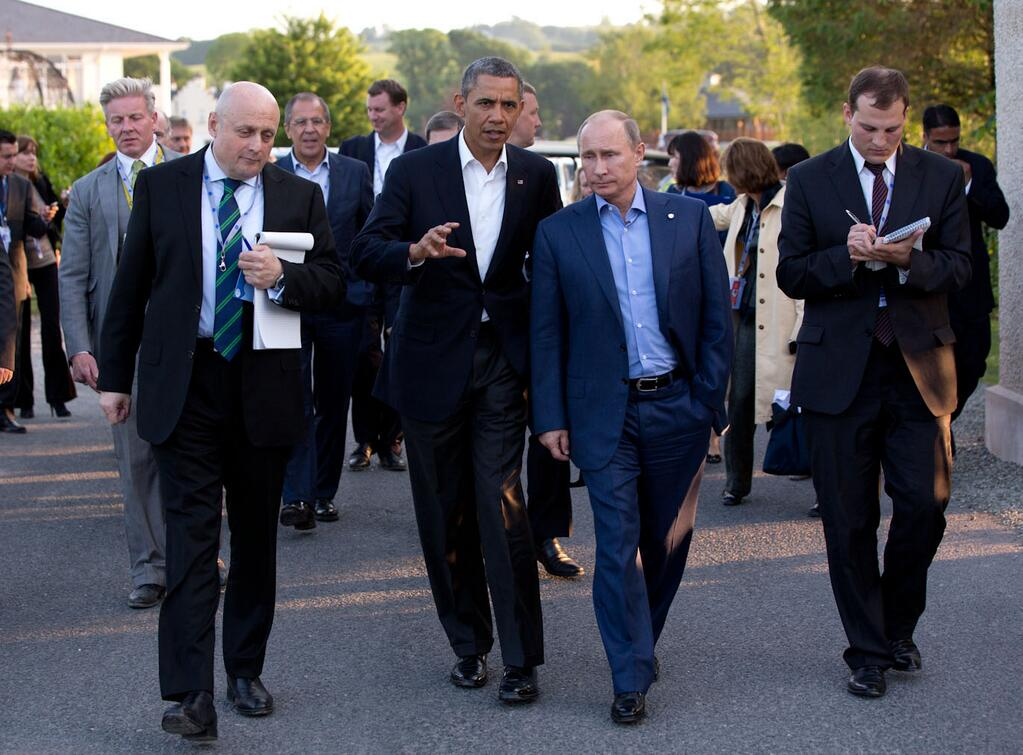 United States President Barack Obama and Russian President Vladimir Putin walk to the G8 Summit dinner following their bilateral meeting in Ireland on 17 June 2013.